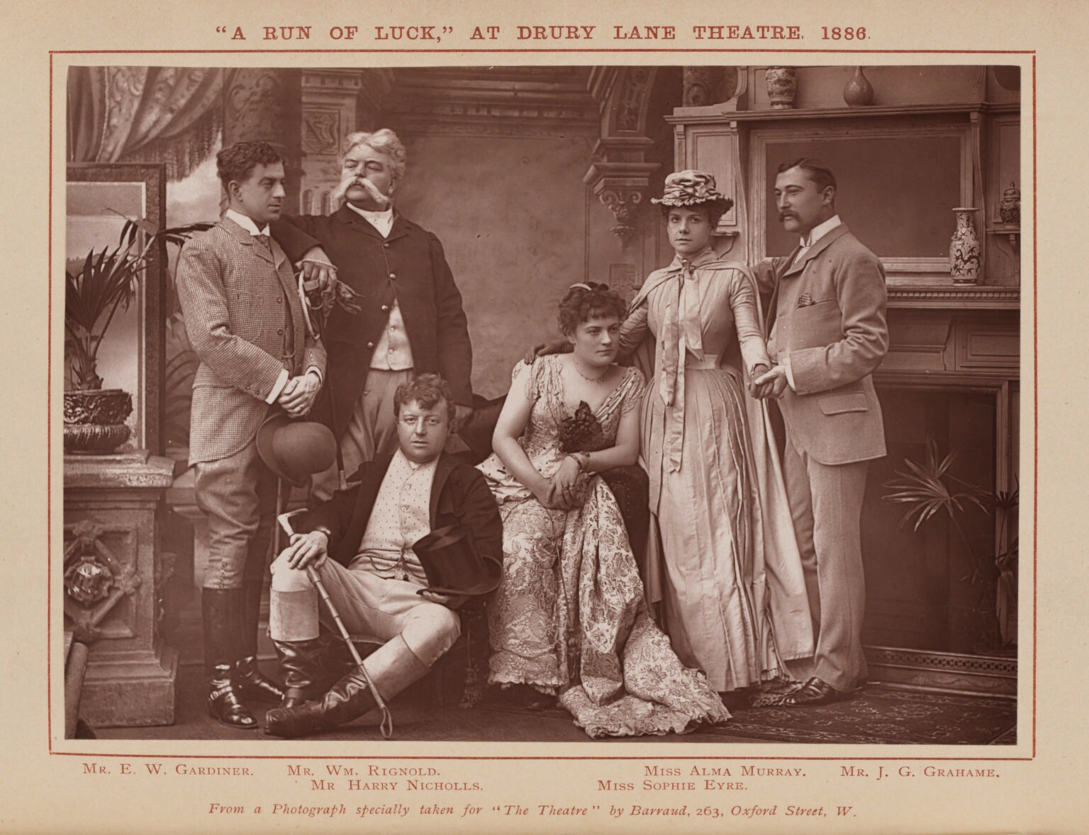 A Run of Luck at Drury Thatre by Herbert Rose Barraud 1886 note npg claim copyright. back row EW Gardiner, William Rignold, Alma Murray, Mr JG Grahame in front:Harry Nicholls and Sophie Etre